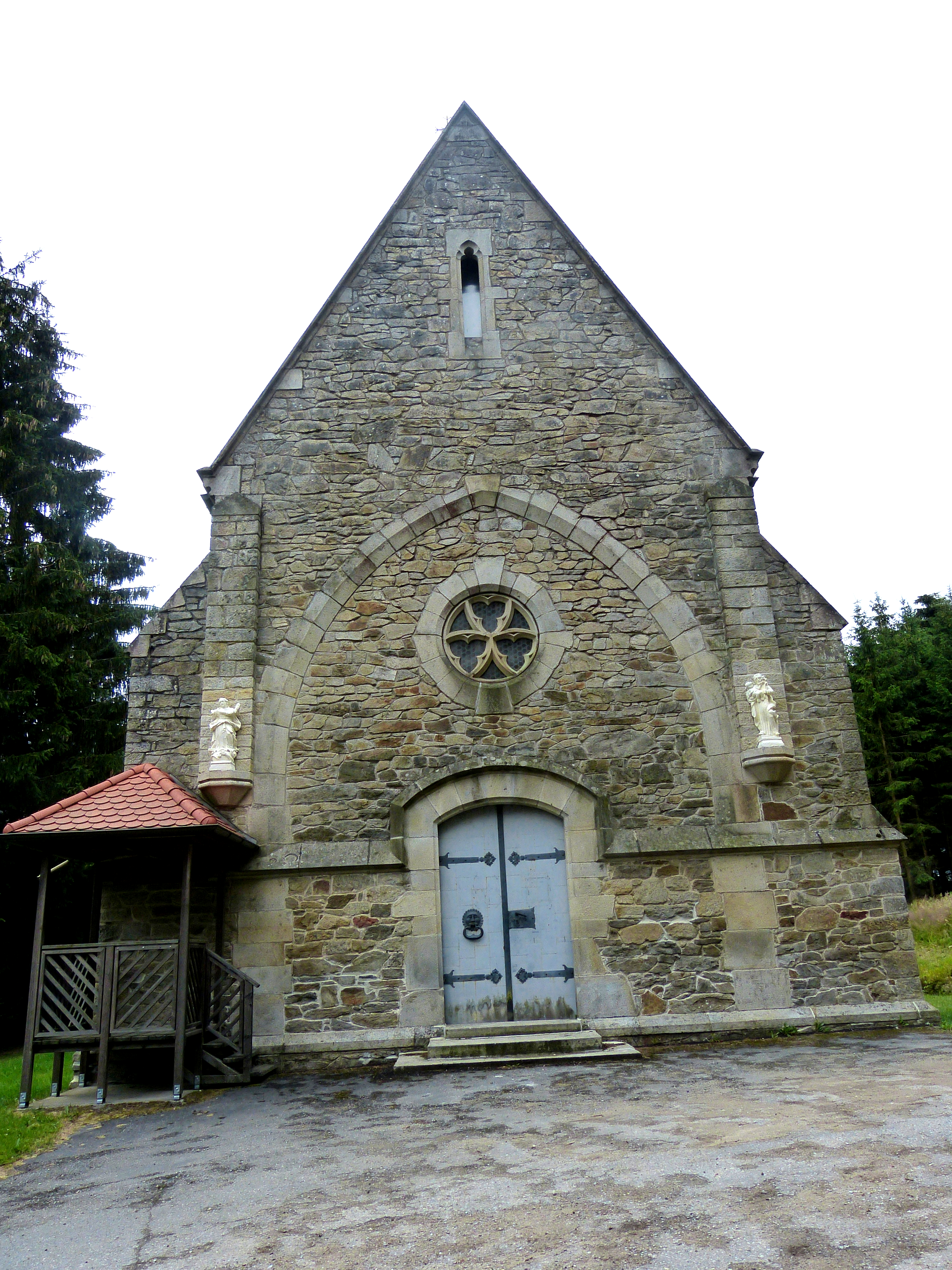 Dietmanns ( Lower Austria ). Chapel ( 1902 ) of the Immaculate Conception - Facade.